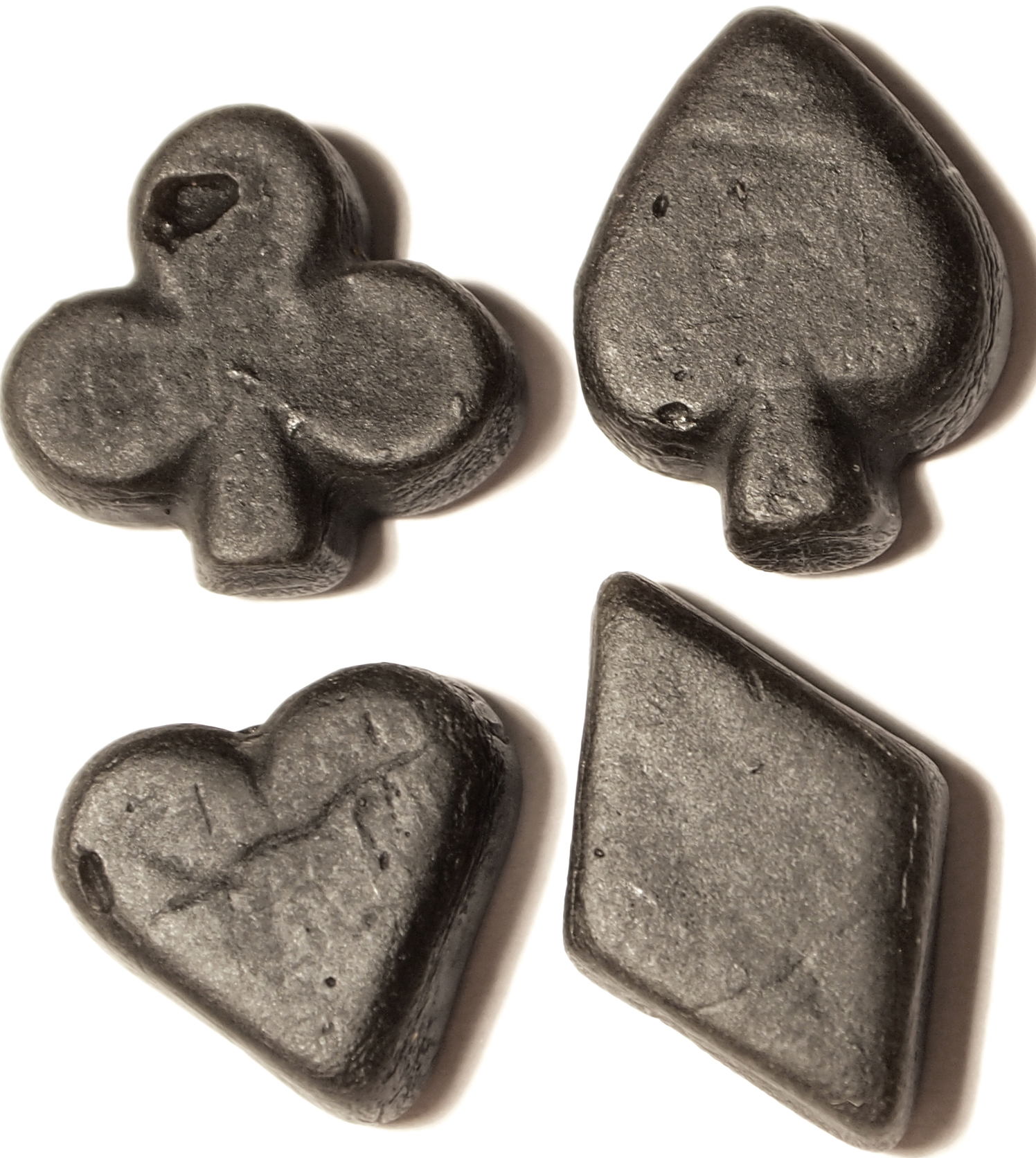 Salmiak flavoured candies from Ässä Mix assortment by Fazer.